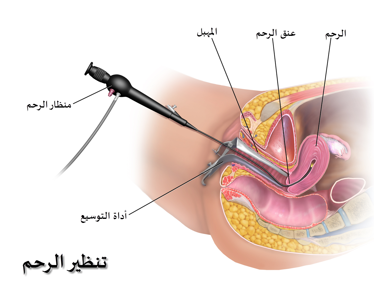 Hysteroscopy